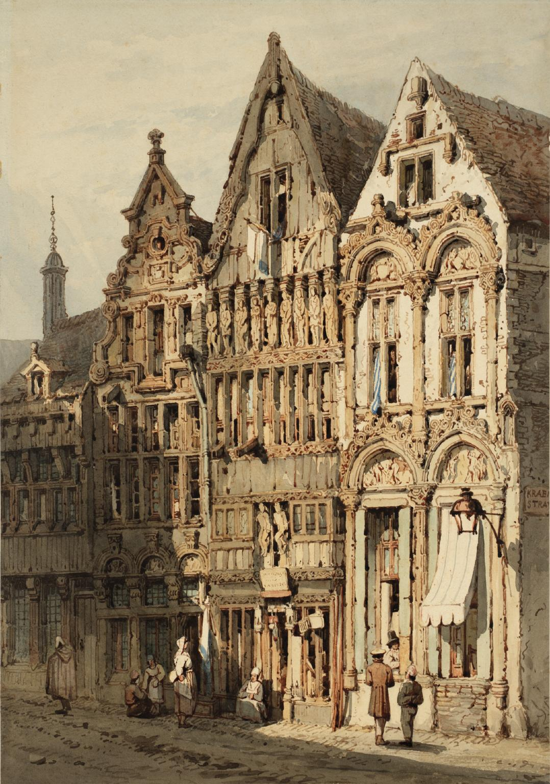 House in the Haverwerf, Malines c.1823-51, by Samuel Prout